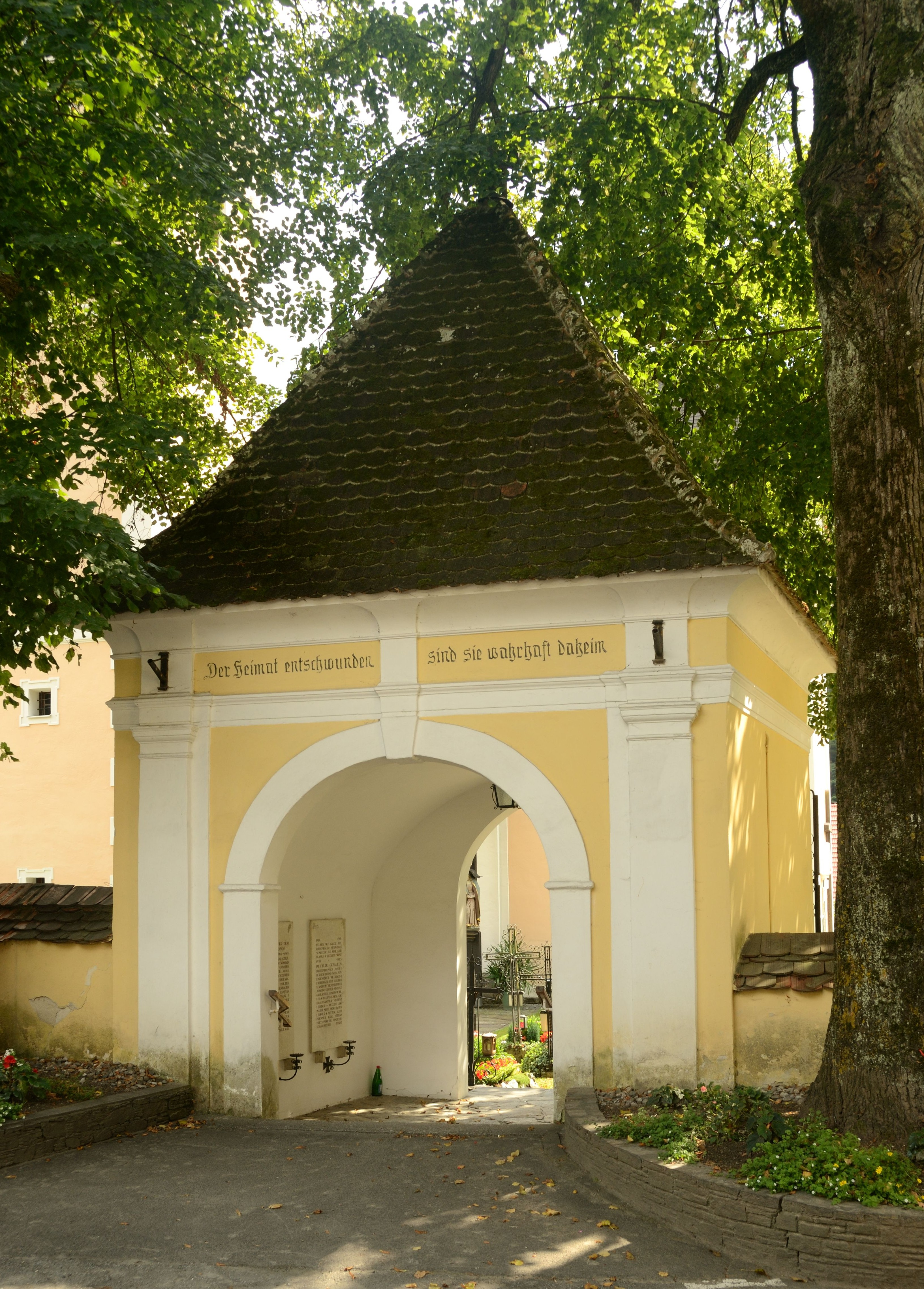 The entrace building to the churchyard in Mönichwald is also a memorial for the dead of both world wars.